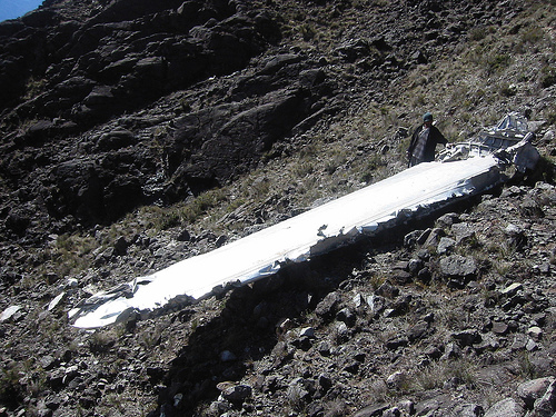 US Air Force plane wreckage on Mount Wilhelm, Papua New Guinea